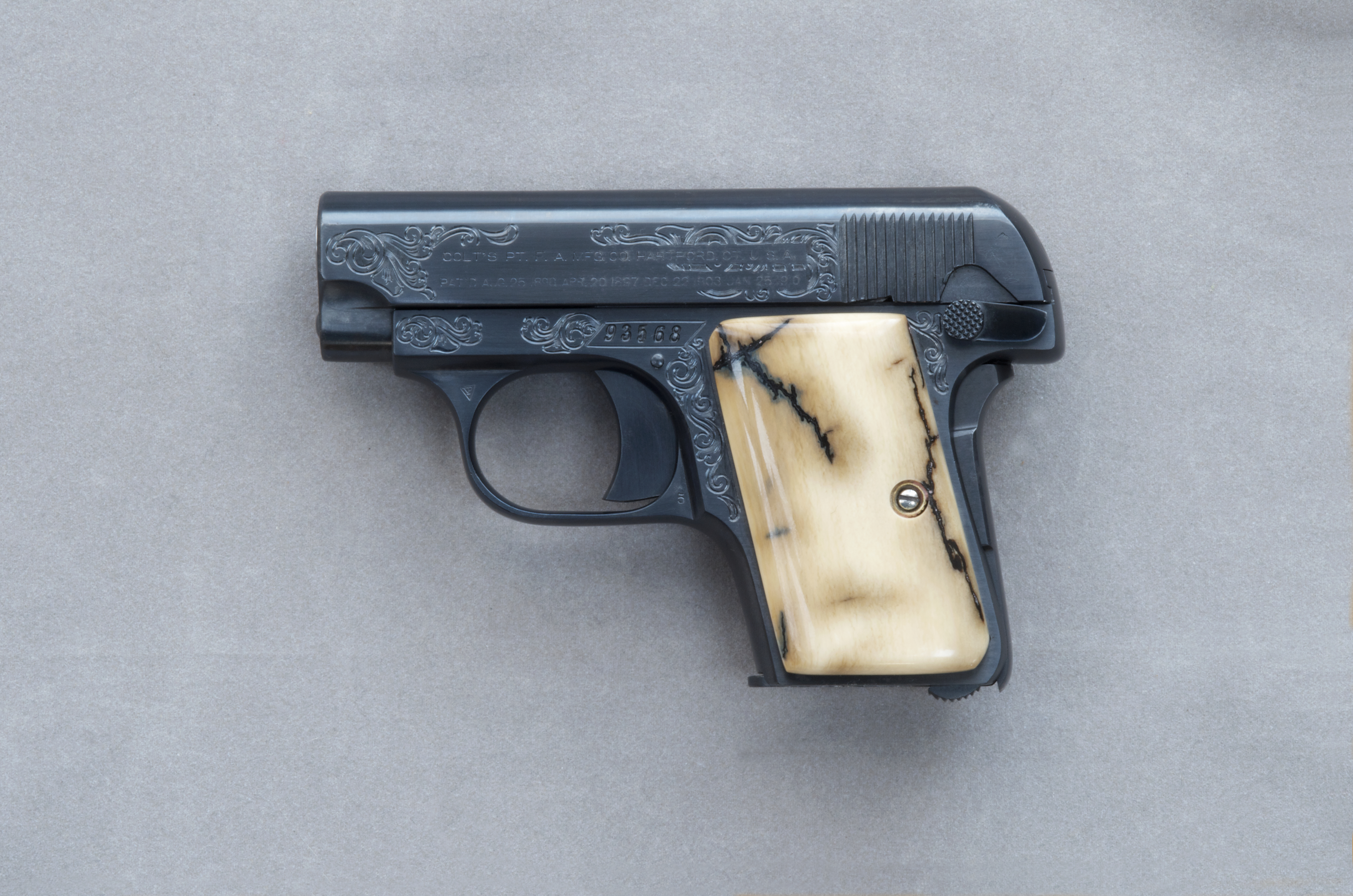 Colt 1908 .25 ACP S/n 93568 left side, manufactured 1913, located Springdale, AR, 2013. Engraver unknown, after-market custom grips of mastodon ivory by Charles Spresser, Riceville, TN. See separate file for the other side of this firearm.